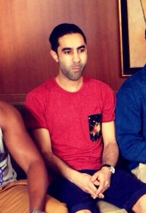 Kylie Speer interviewing Rudimental in 2013